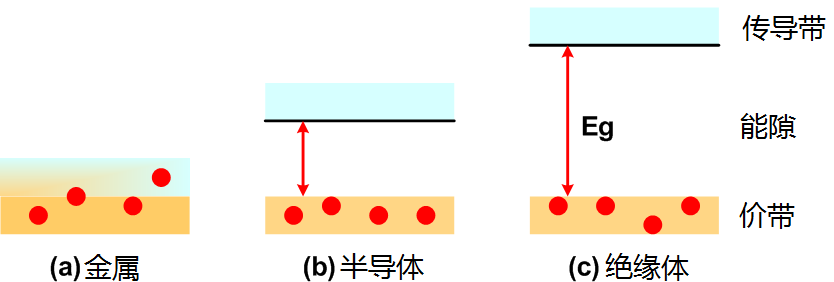 參考日文版維基百科繪製